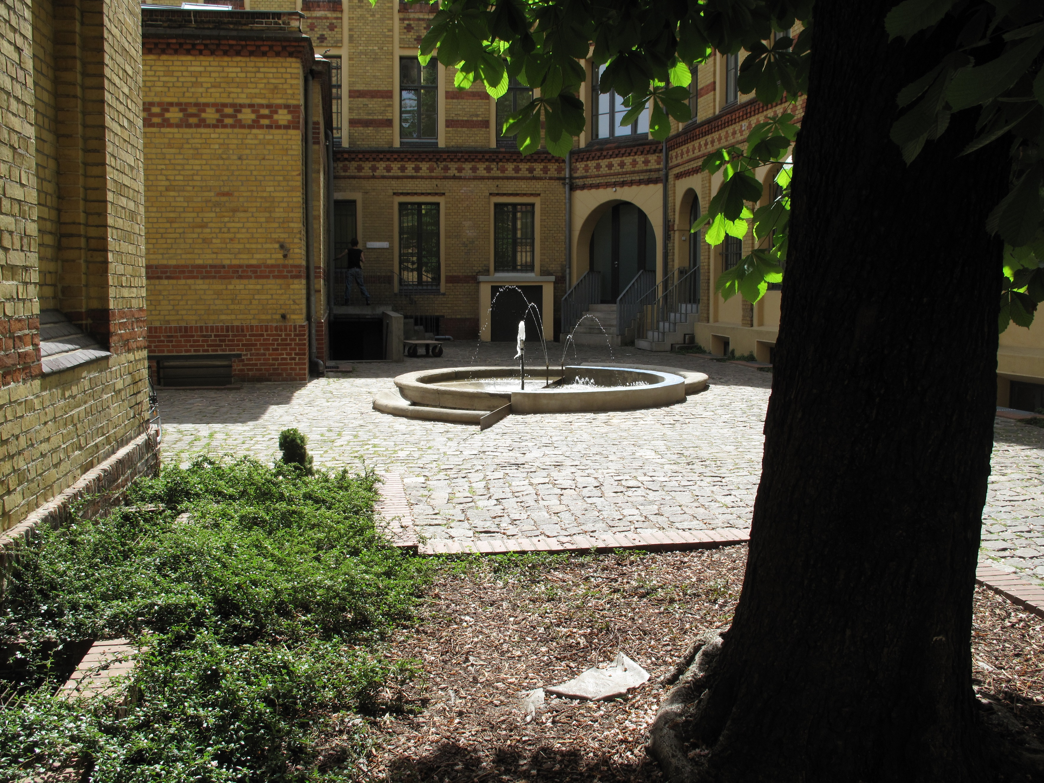 Fontes e sequestros is an art work, created by brazilian installation- and conceptual artist Renata Lucas on the occasion of Berlins Gallery Weekend 2015. It was presented by the gallery neugerriemschneider in the listed building Linienstraße No. 155 in Berlin-Mitte, Germany. The central part of the work, a fountain, is placed in the courtyard of the gallery. In the work Lucas combined the recasted structures of three Berlin-fountains from different architectural epochs into a new historical symbol.